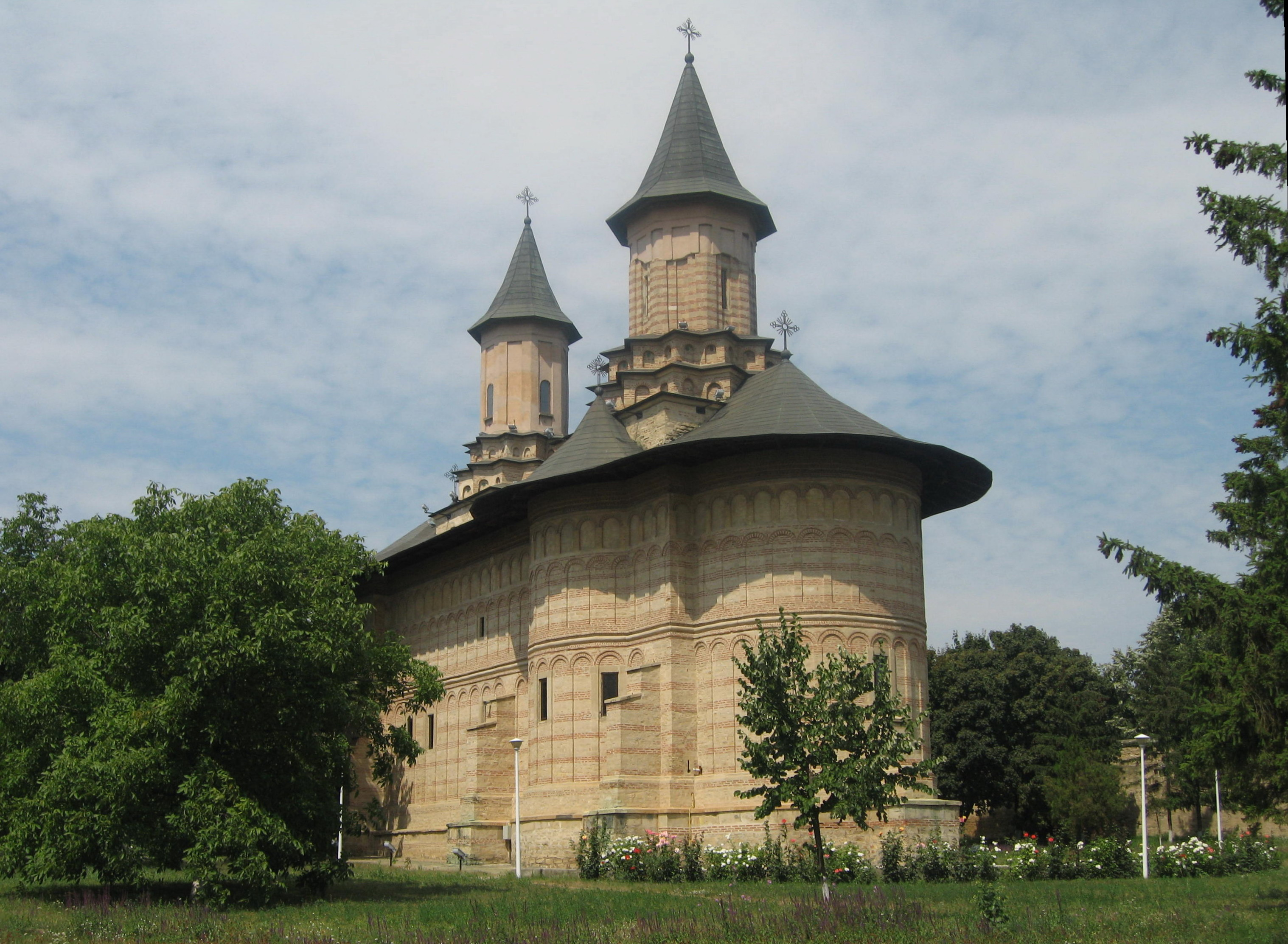 Manastirea Galata